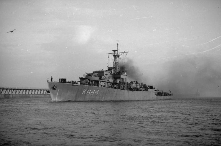 Photograph of British frigate HMS Cawsand Bay.